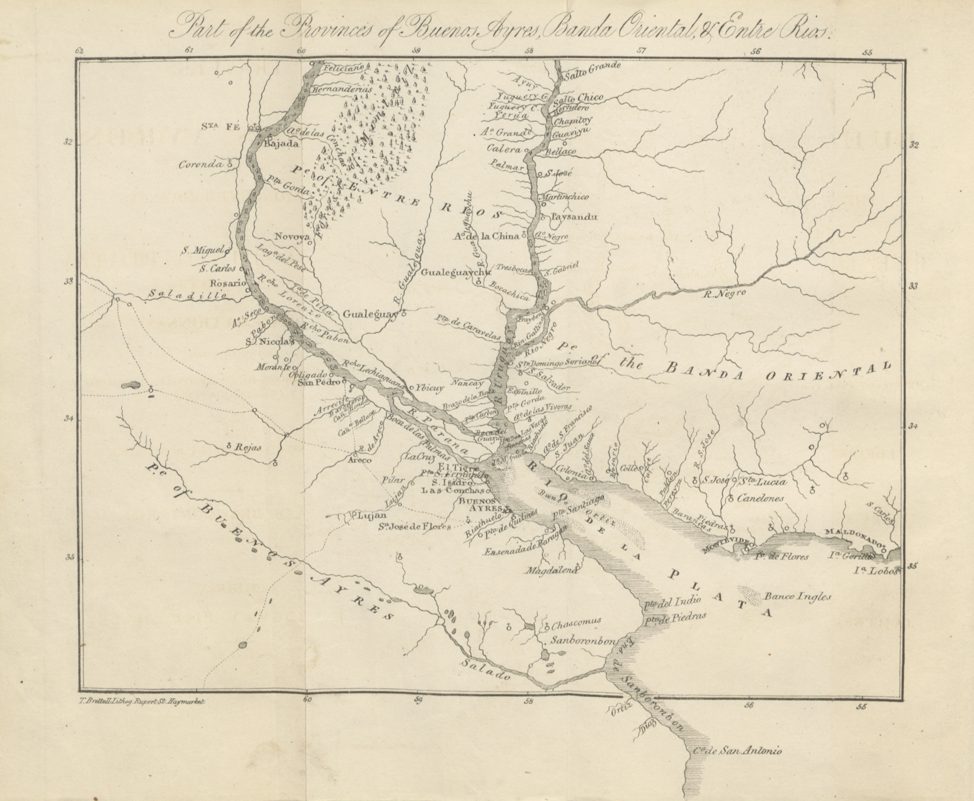 Page 12 of Travels in Buenos Ayres, and the adjacent provinces of the Rio de la Plata. With observations, for the use of persons who contemplate emigrating to that country; or, embarking capital in its affairs.